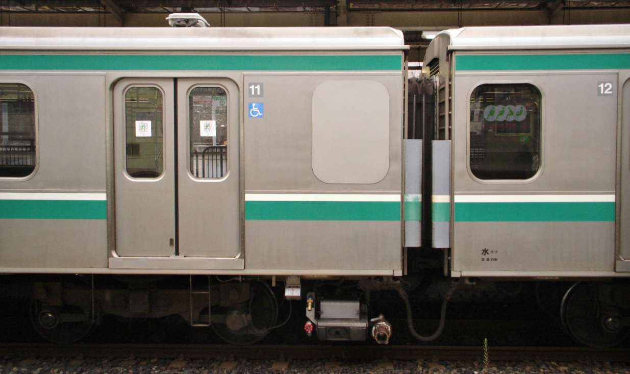 A JR East E501 series 10+5-car EMU set at Ueno Station on a Joban Line service, showing the blocked-off window next to the recently-added toilet in car 11